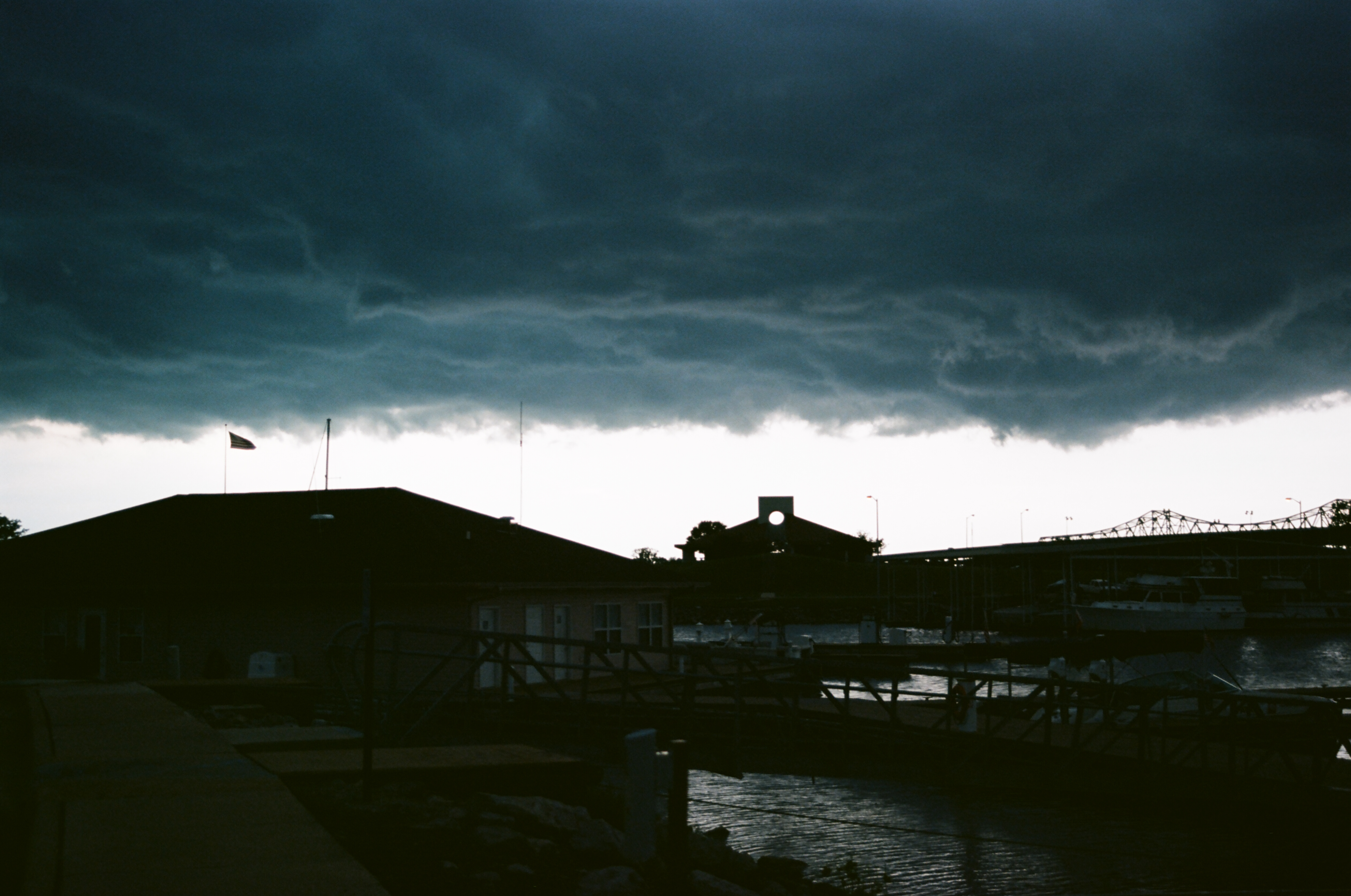 Storm front associated to a cumulonimbus moving to the west at Whitesburg (Alabama). Torrential rain under the storm.